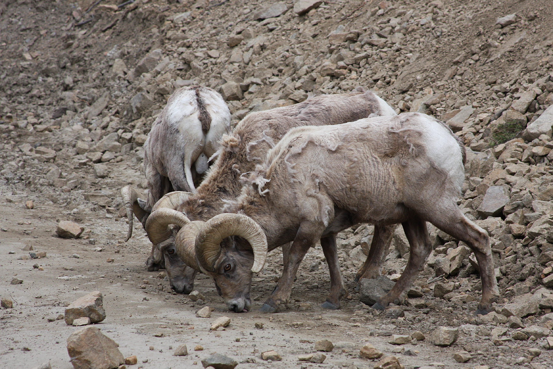 Three male Bighorn Sheep discover a natural salt lick along Guanella Pass, a few miles south of Georgetown.